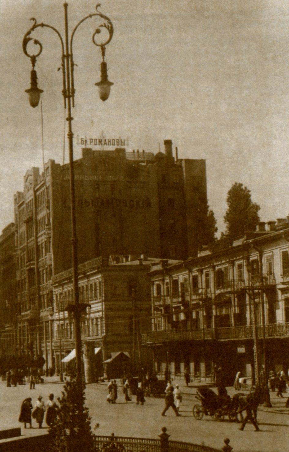 Cjarska plosha(Chrestjatyk)